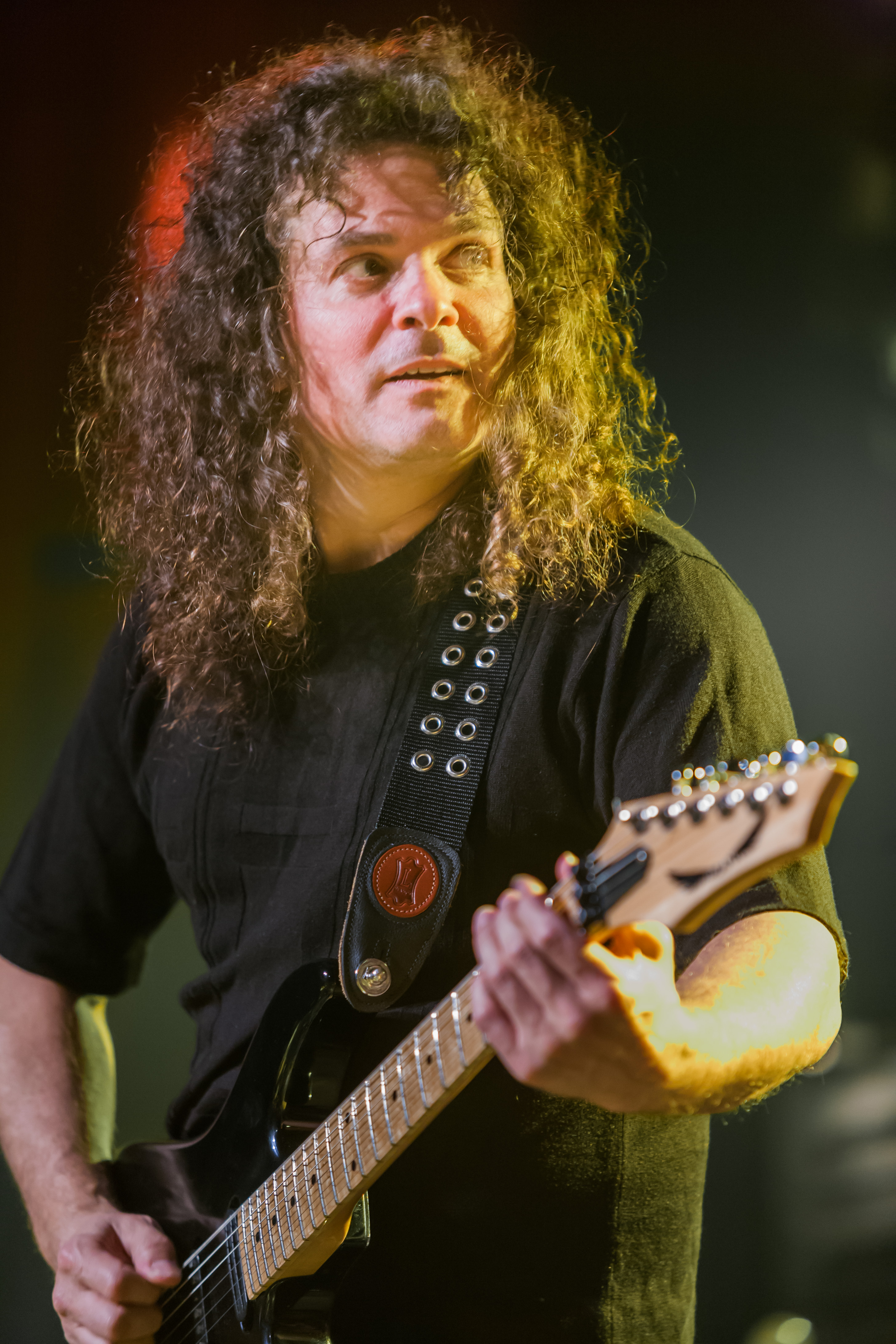 Vinnie Moore, guitarist of the band UFO at music club “Kantine” in Cologne